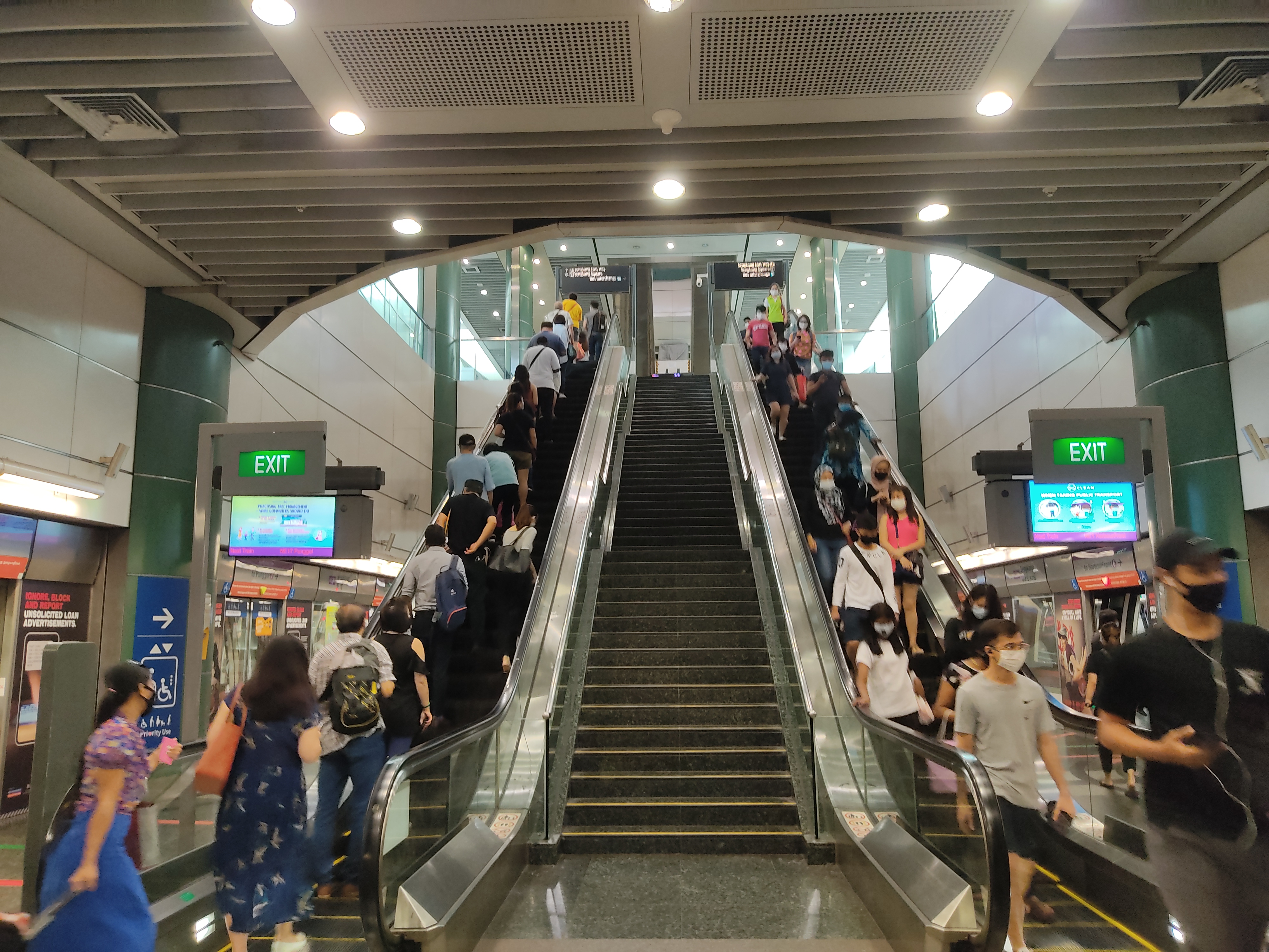 NEL platforms of Sengkang